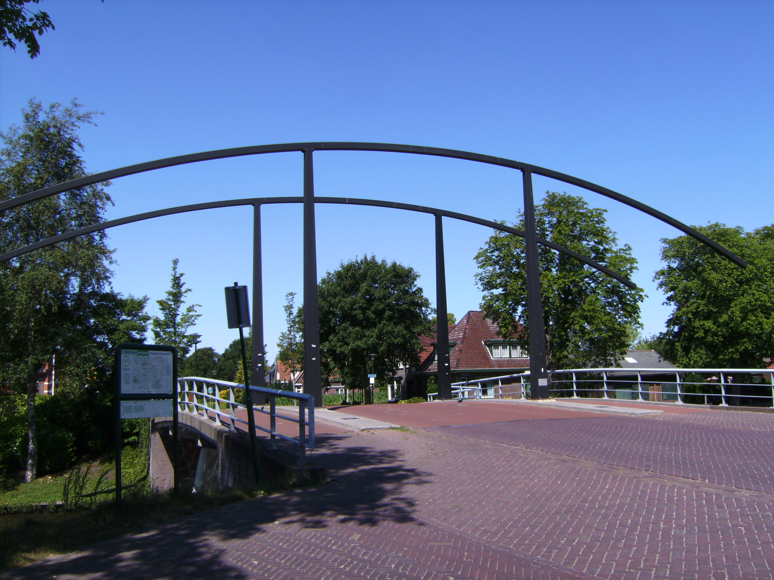 Opeinde ,small bridge